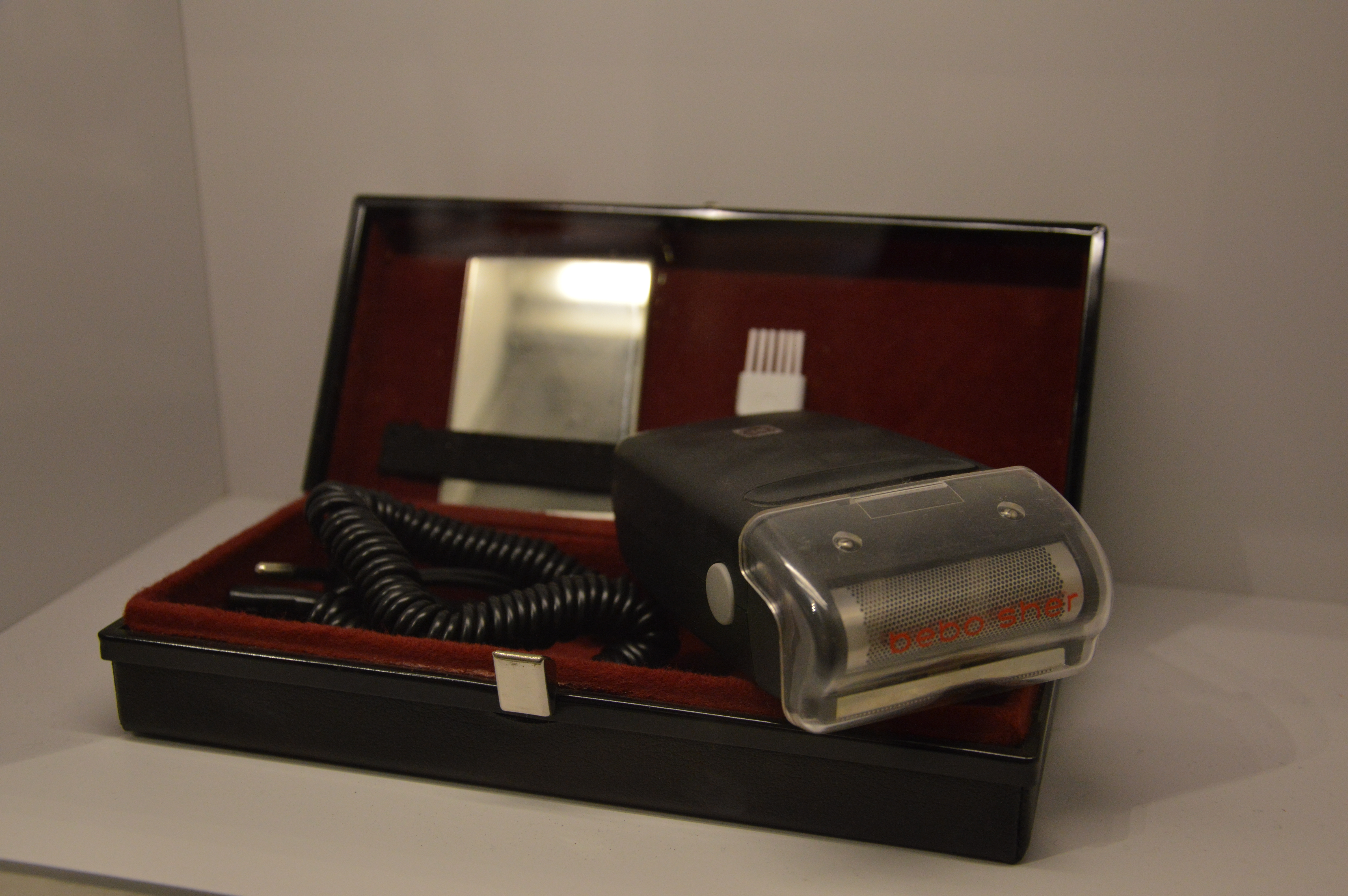 An East-German-made "bebo sher" razor on display as part of the "Alltag in der DDR" (Everyday life in the GDR) exhibit of the Museum in the Kulturbrauerei, Berlin.